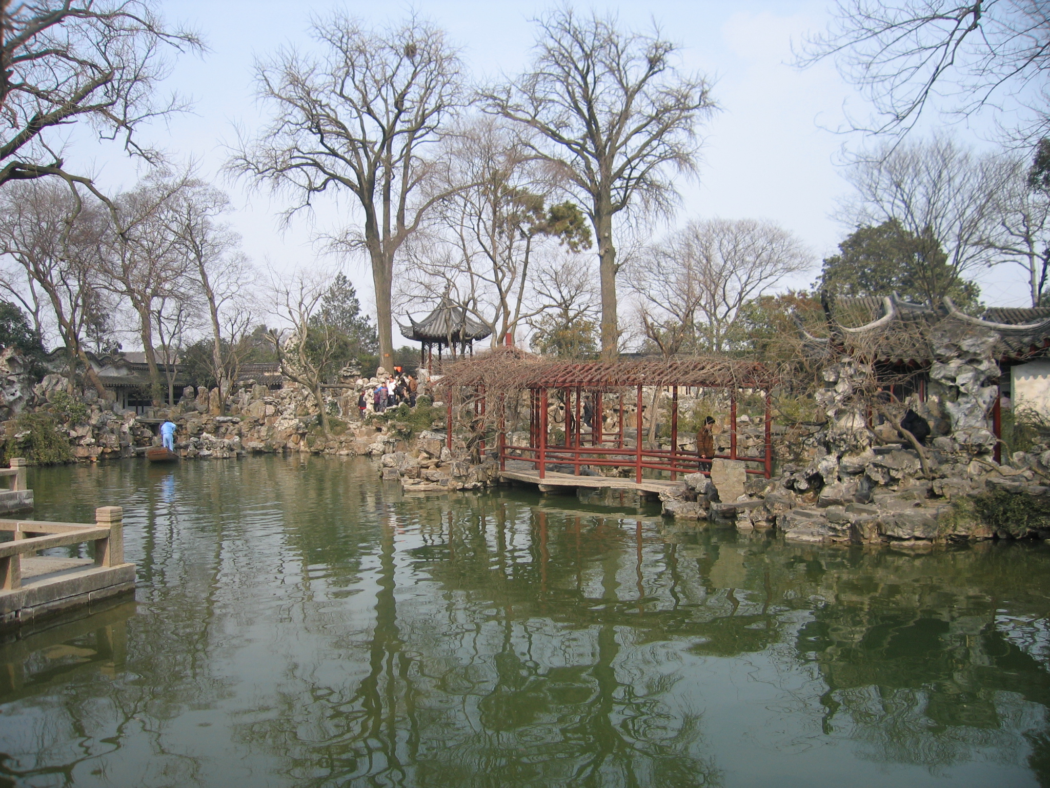 Lingering Garden is regarded as one of the top four classical Chinese gardens in Suzhou.